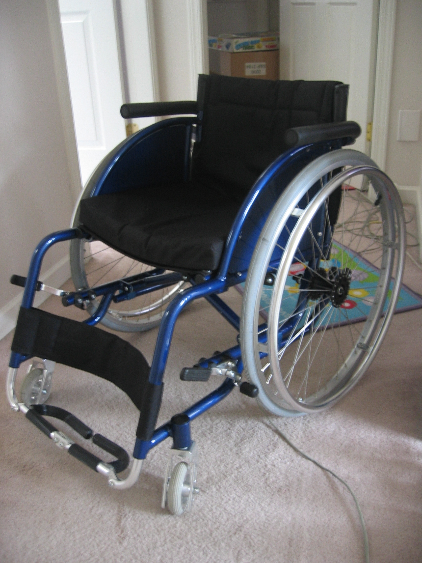 A blue folding lightweight wheelchair.